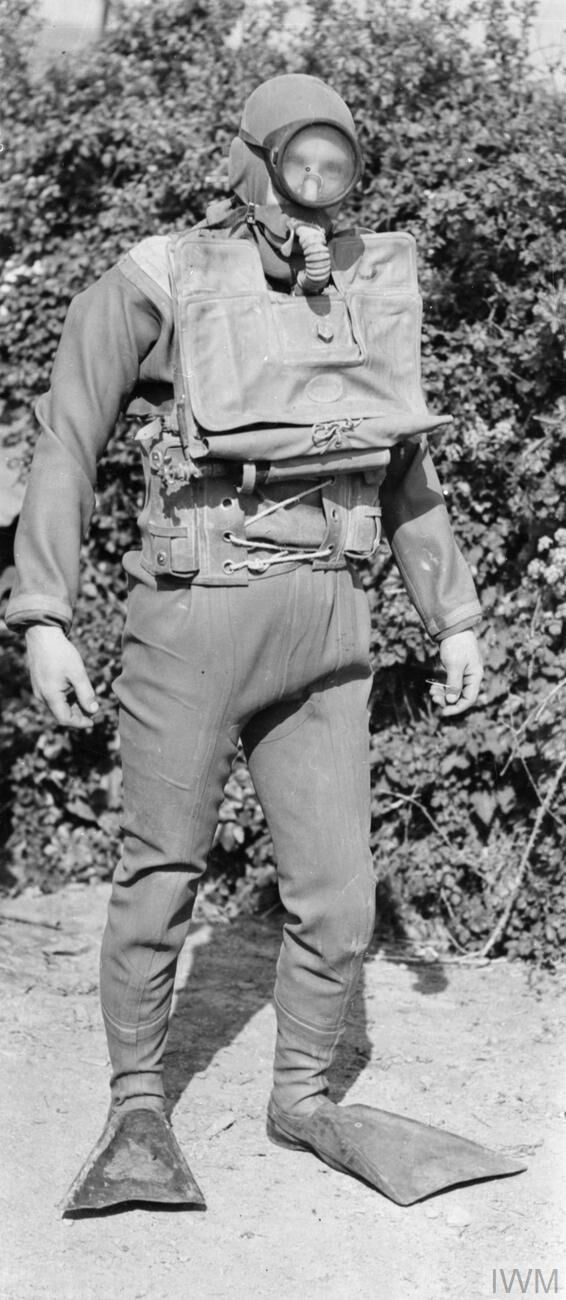 A British navy frogman, here equiped with the well known Davis apparatus. Those men were the underwater experts who blasted a hole in the Nazi's Atlantic Wall to enable invasion craft to reach the Normandy beaches on D-Day.